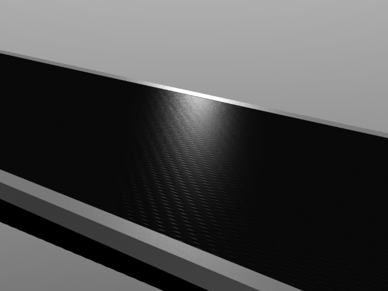 A render of a ski showing the structure of a ski base